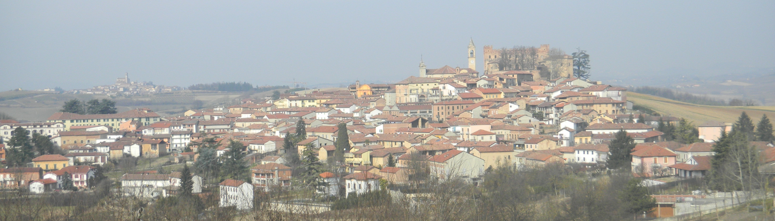 Landscape of Montemagno (Asti, Italy)